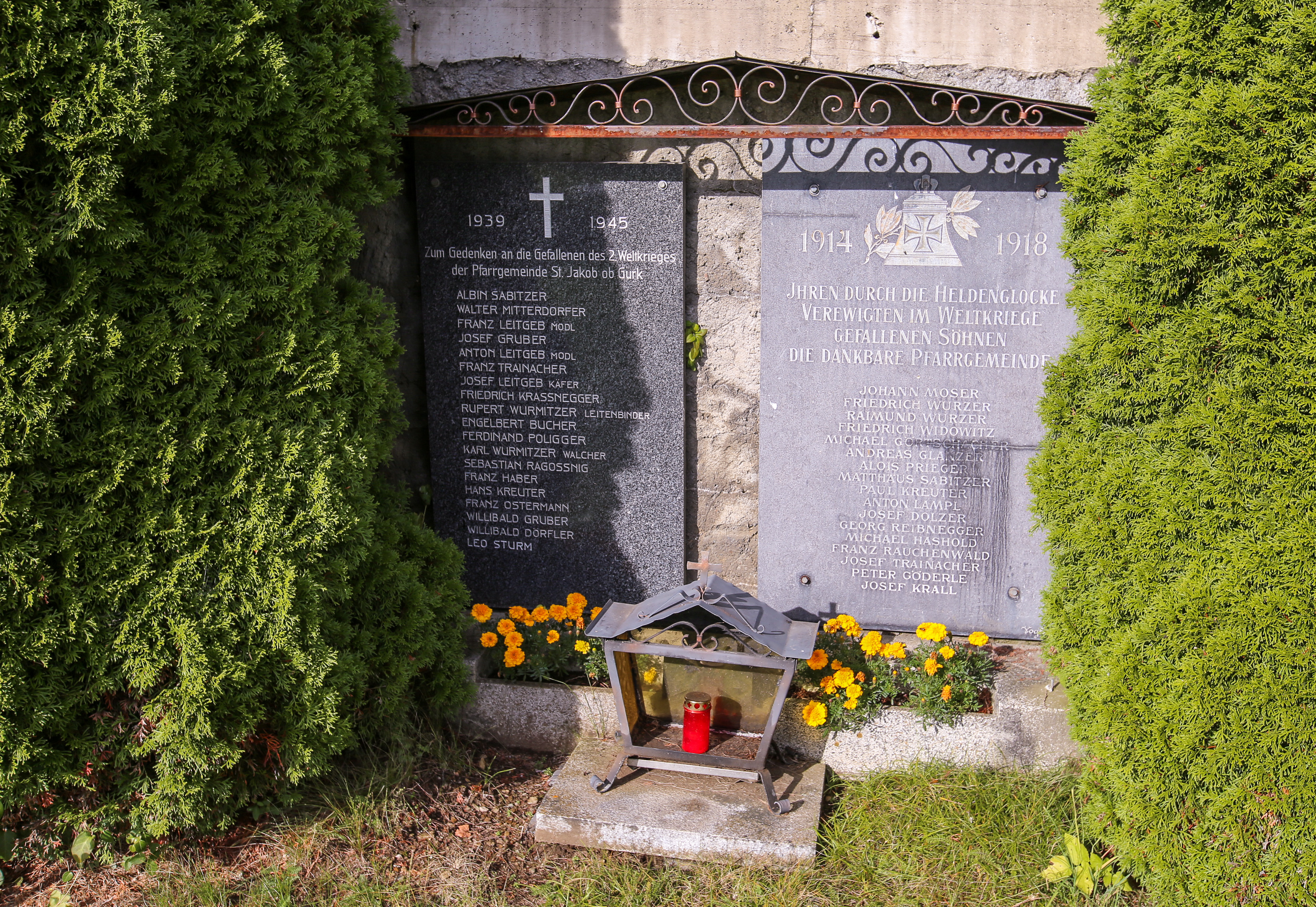 War memorial at the cemetery in St. Jakob ob Gurk in the Gurktal Alps Carinthia / Austria / EU. The surnames of the soldiers are: Bucher, Dolzer, Dörfler, Glanzer, Göderle, Görtschacher, Gruber, Haber, Hashold, Krassnegger, Kreuter, Lampl, Leitgeb Käfer, Leitgeb Modl, Mitterdorfer, Moser, Ostermann, Poligger, Prieger, Raggosnig, Rauchenwald, Reibenegger, Sabitzer, Sturm, Trainacher, Widowitz, Wurmitzer Leitenbinder, Wurmitzer Walcher, Wurzer.